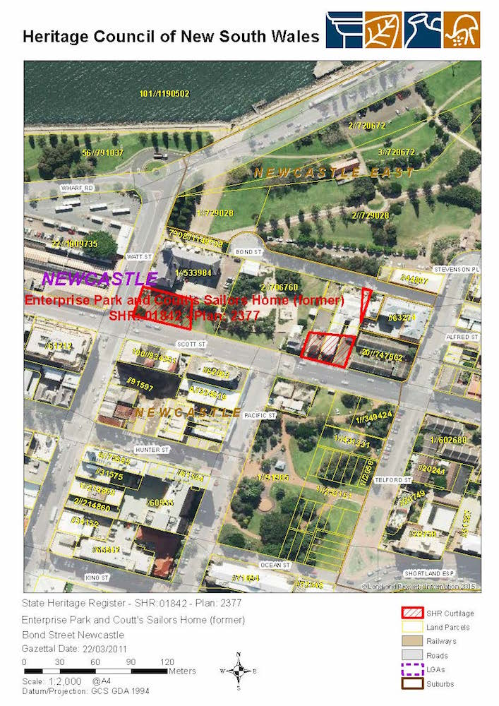 Coutt's Sailors Home: SHR Plan 2377